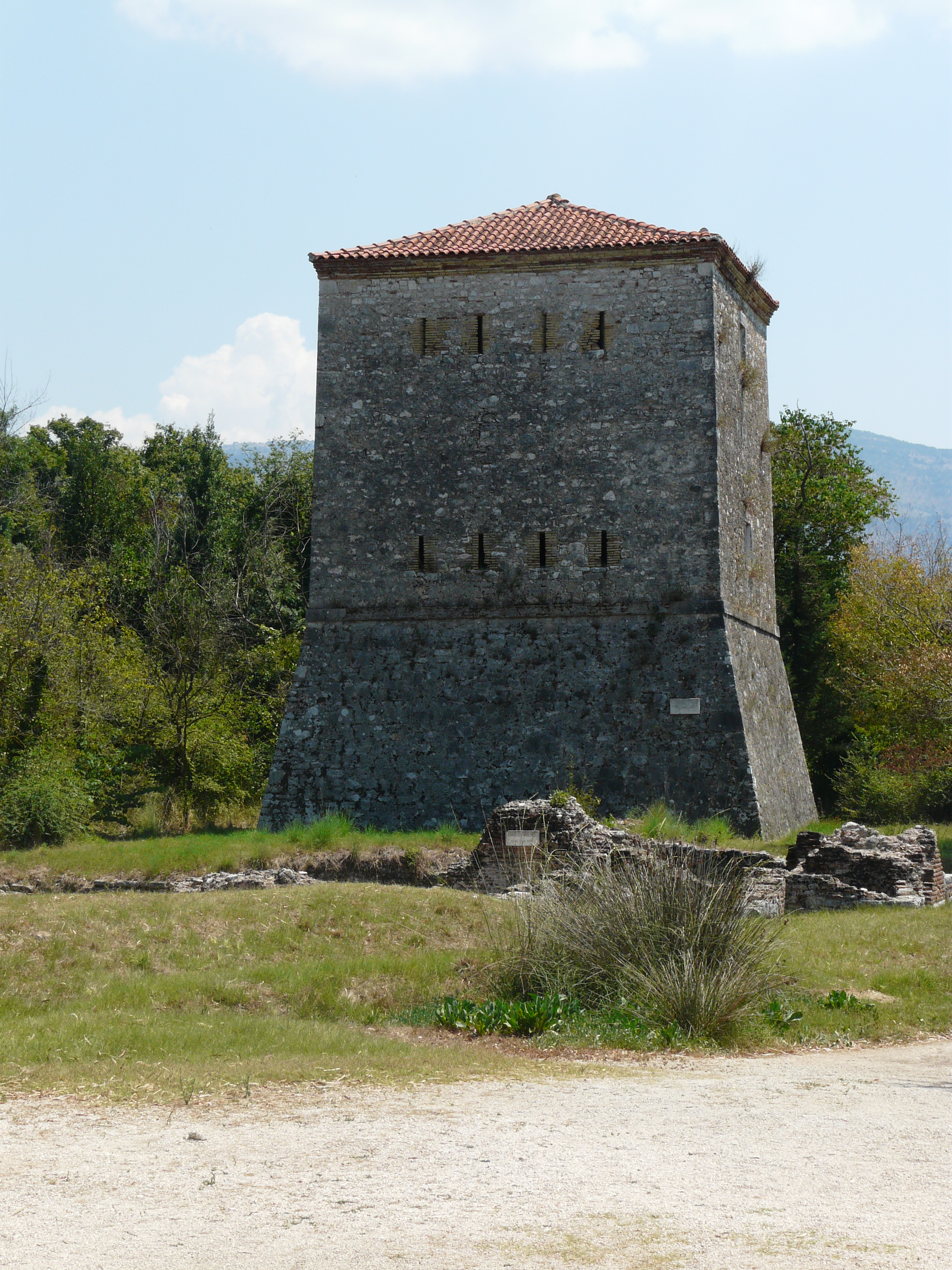 Venetian tower at Butrint